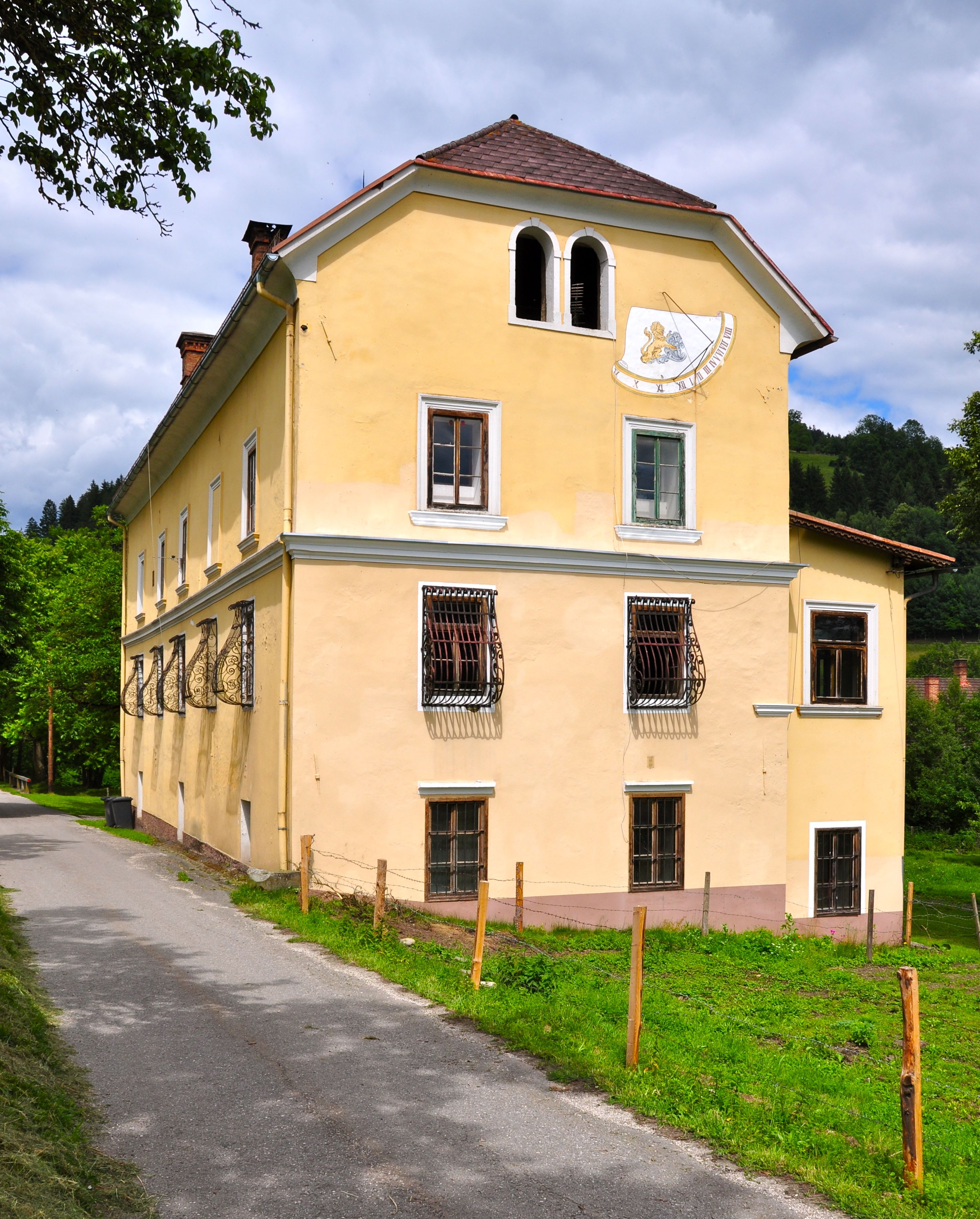 Castle Greifenthurn on the Gurktalerstrasse #37, municipality Feldkirchen, district Feldkirchen, Carinthia, Austria, EU